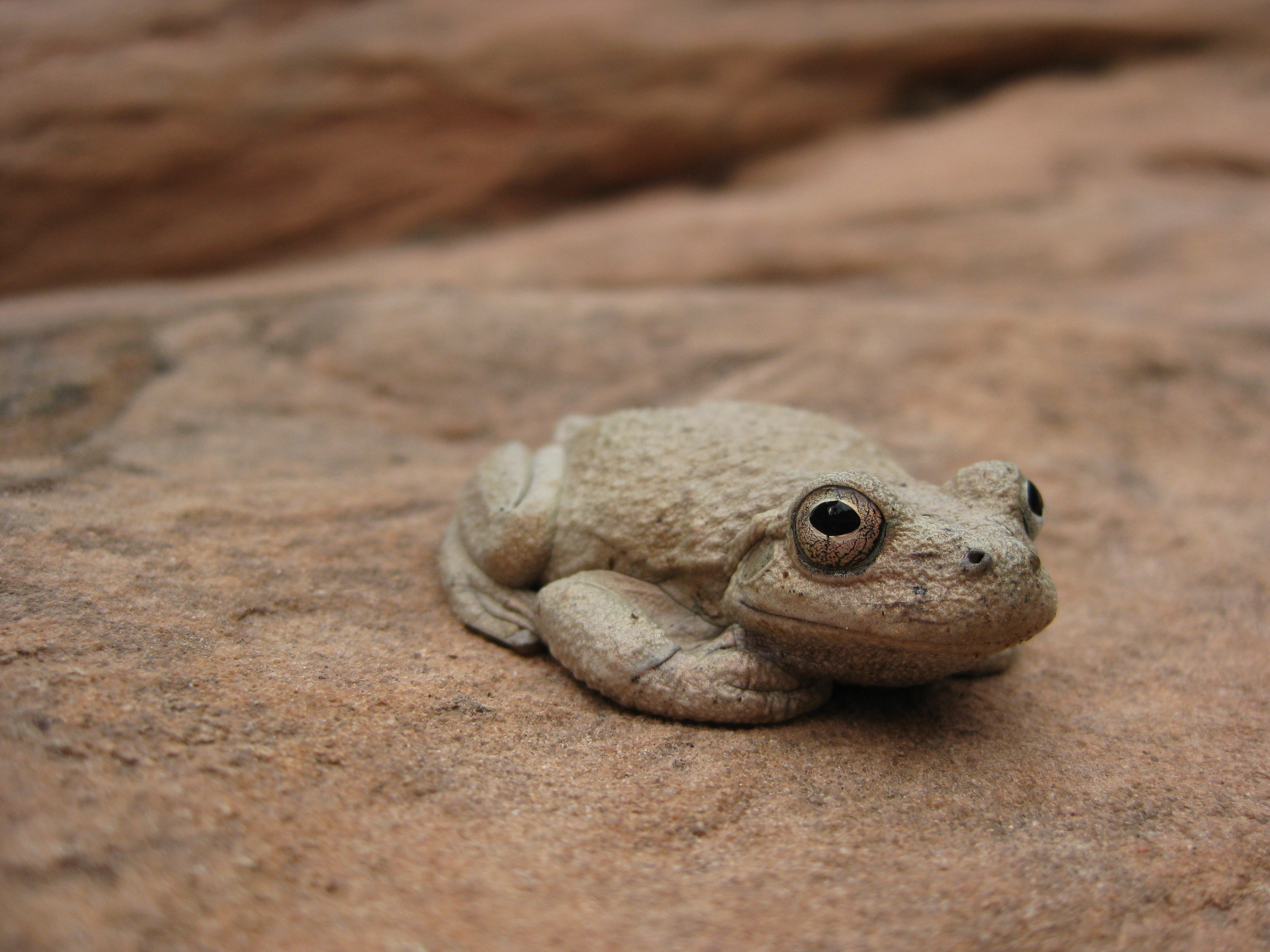 A well camouflaged canyon treefrog (Hyla arenicolor) in Zion National Park, Utah. NPS Photo/Caitlin Ceci